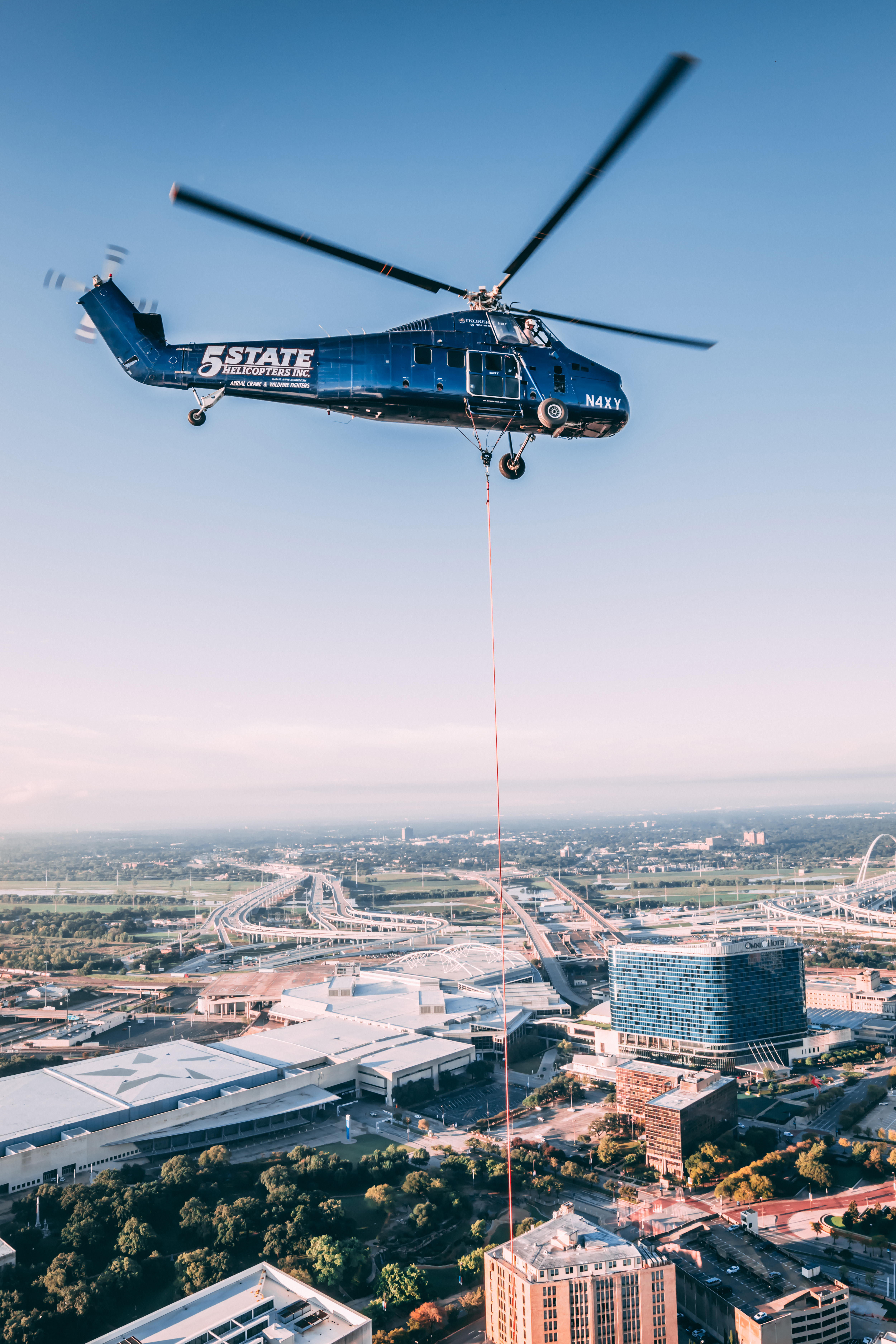 S-58T owned by 5 State Helicopters and stationed in Fate, TX performing a helicopter lift operation.